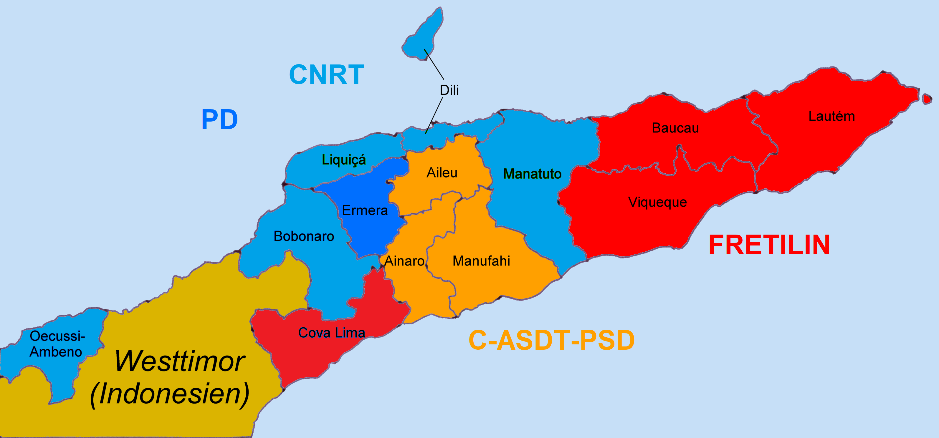 Results of parliament elections in East Timor 30th June 2007. Strongest party in each district